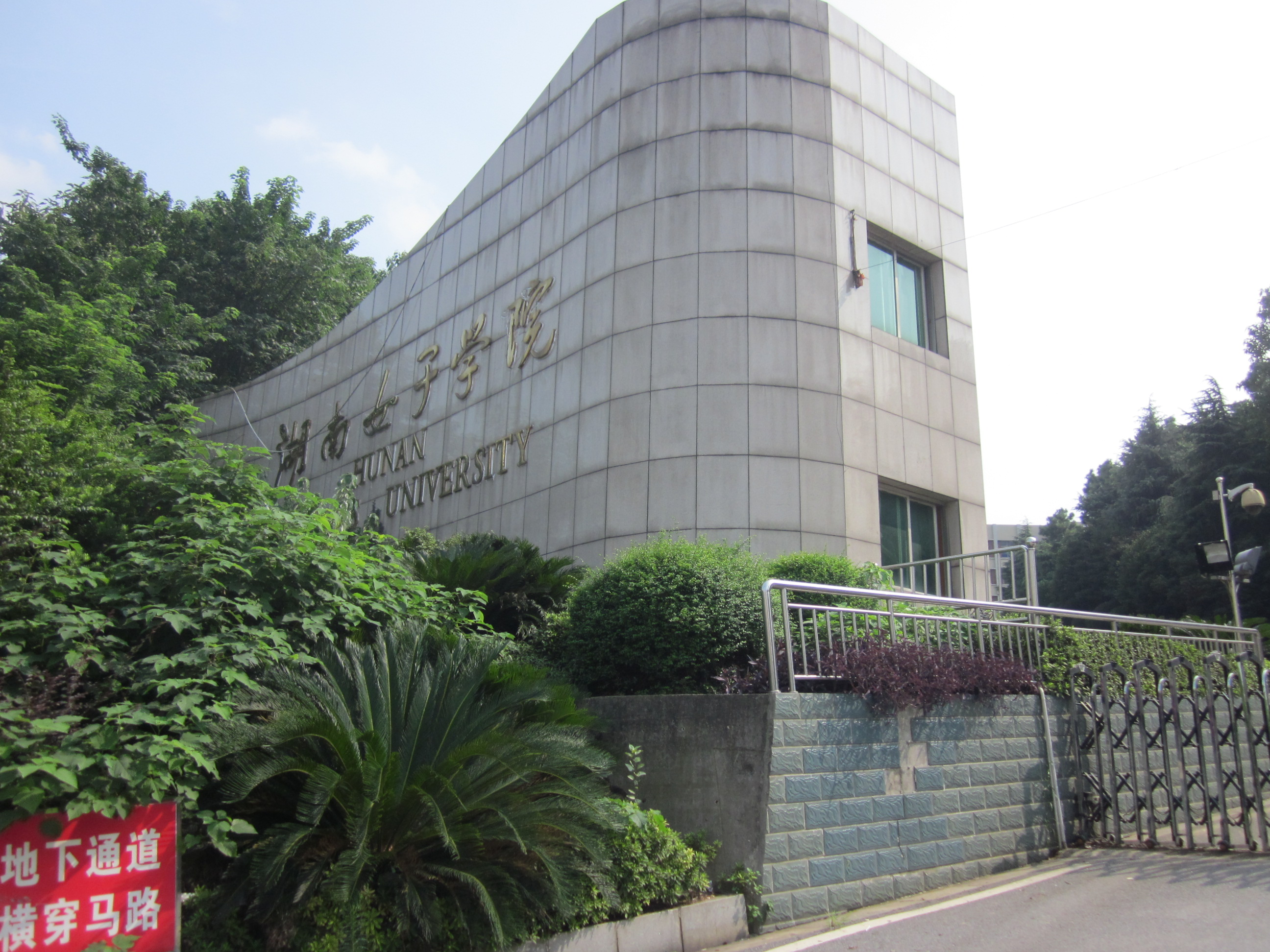 Hunan Women's University (simplified